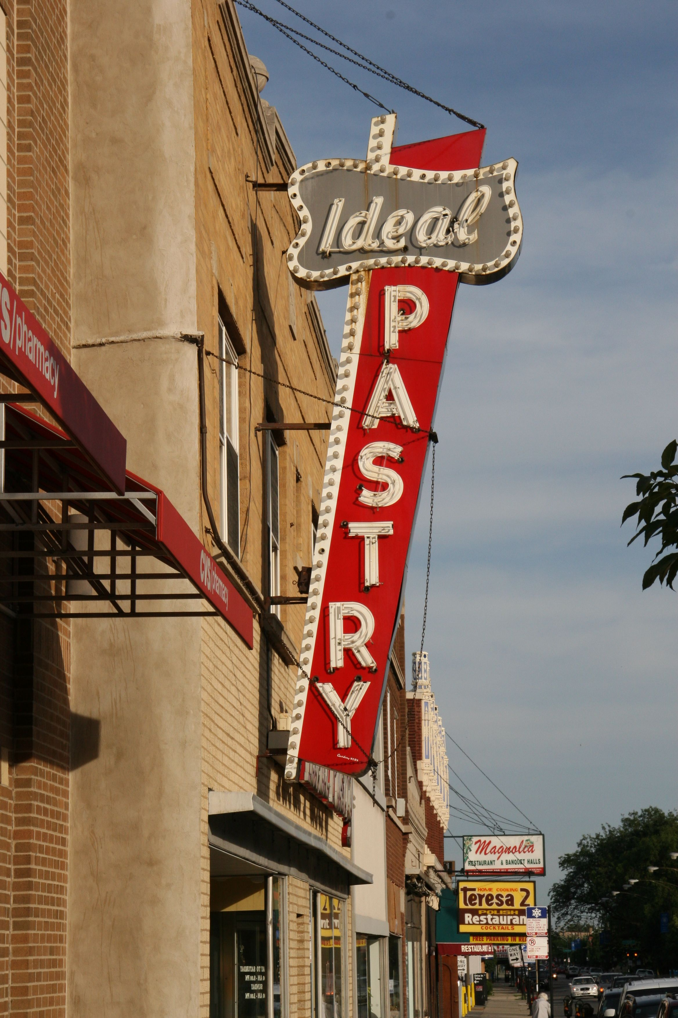 A view of a Polish pastry shop on Milwaukee Avenue in the Jefferson Park neighborhood of Chicago